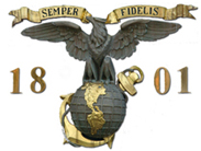 Marine Corps Barracks Washington DC logo